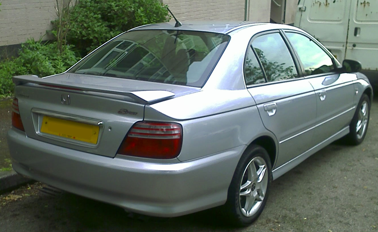 Honda Accord Sport Saloon Rear 2001